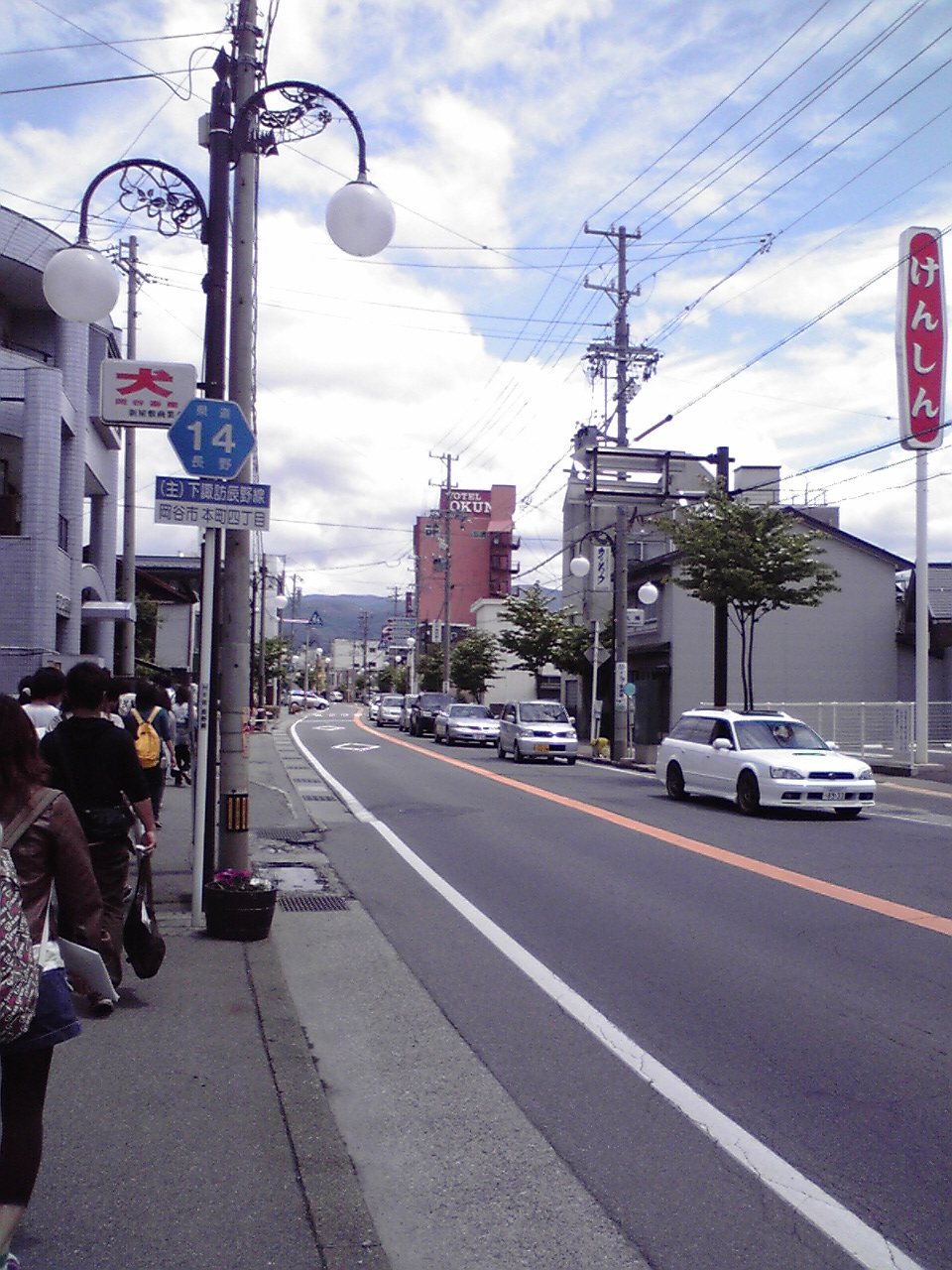 The Nagano Prefectural Road Route 14 in Central Okaya